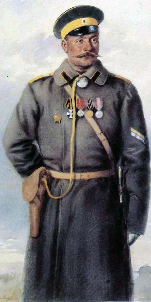 Portrait of Arhip_Petrowski